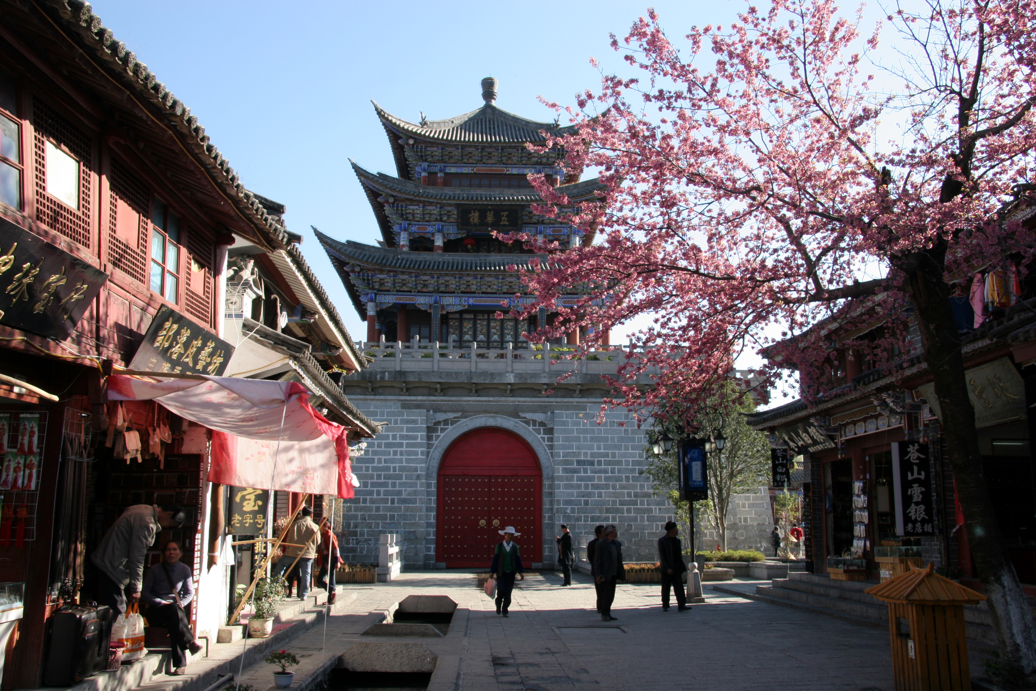 Dali, old city of yunnan, china